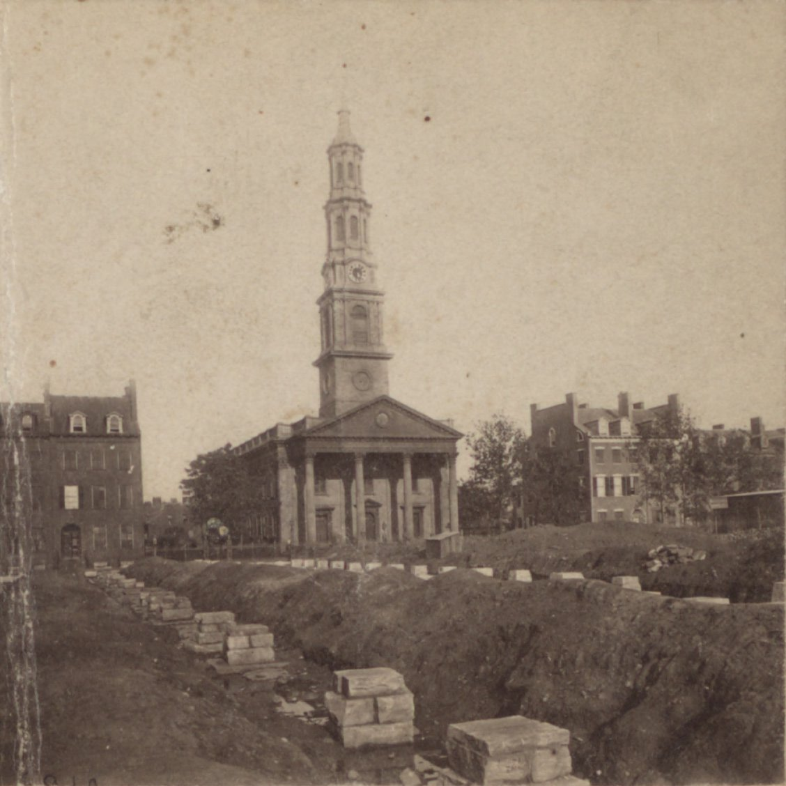 St. John's Church (Episcopal) in New York City, destroyed when Varick Street was widened in 1918.